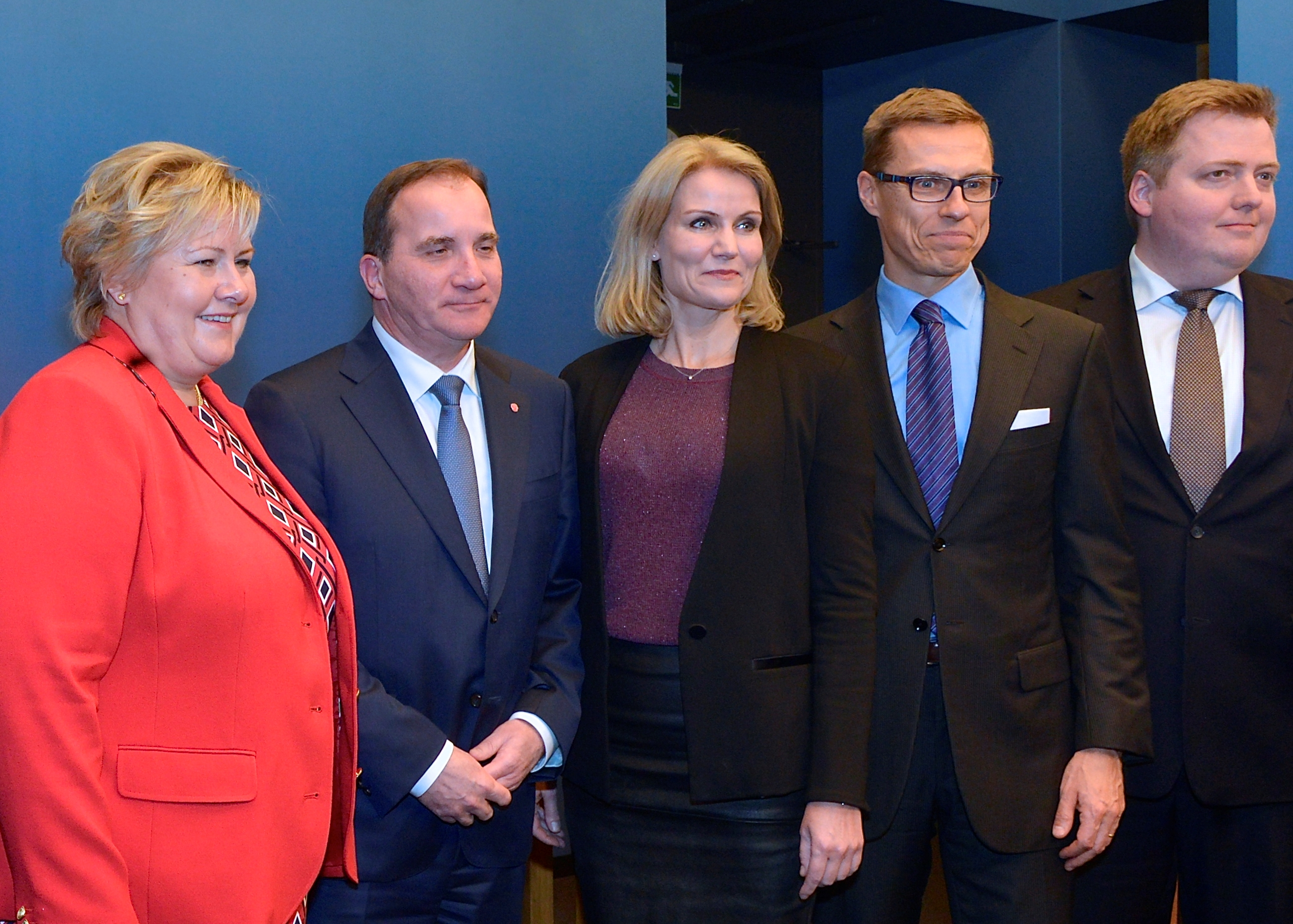 The Prime Ministers of the Nordic Countries in Stockholm in October 2014 during the Nordic Council session.